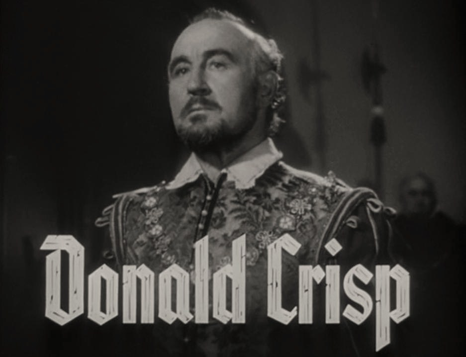 Donald Crisp in The Sea Hawk - trailer (cropped screenshot)